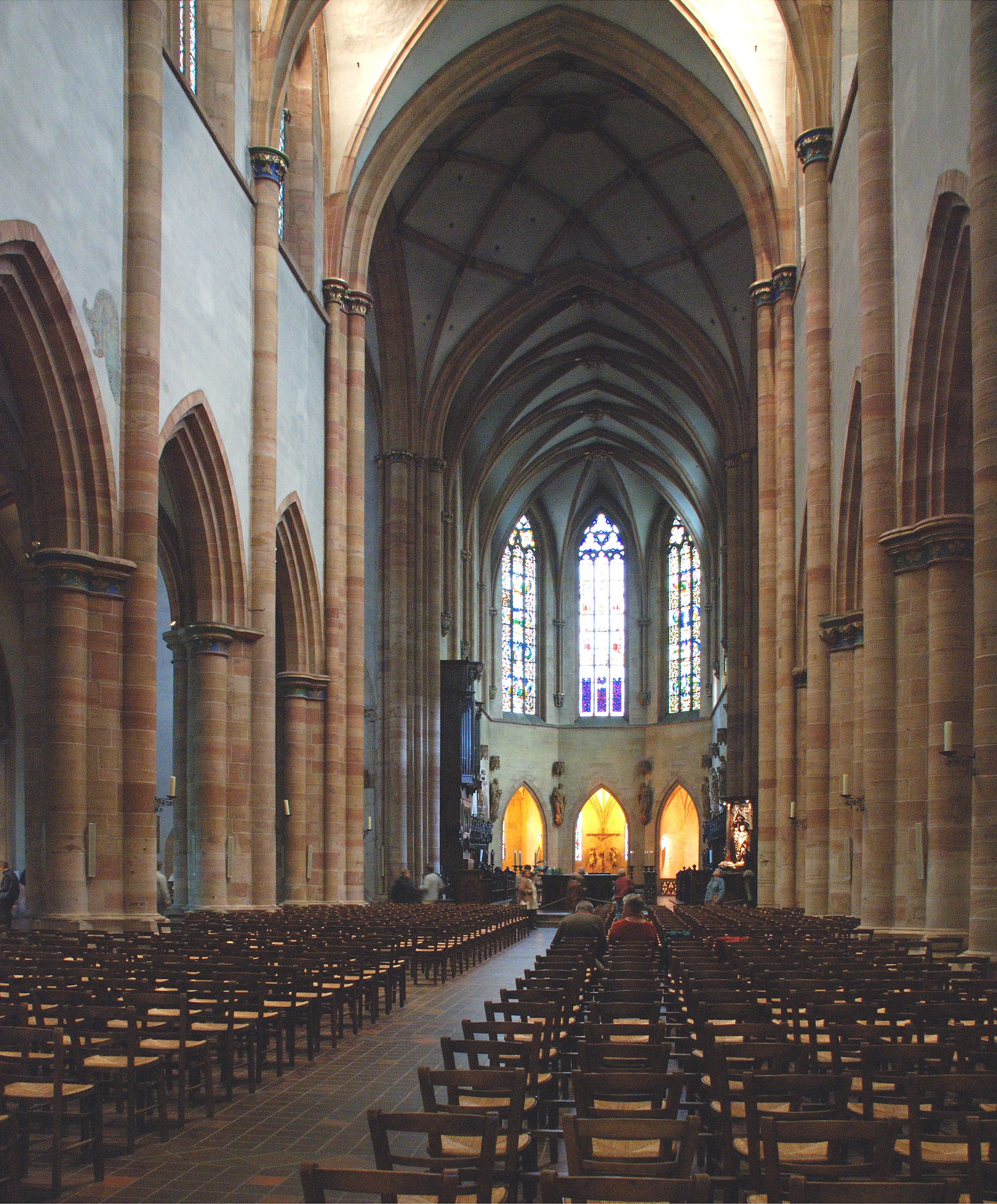 Interior of the St-Martin's Church on place de la Cathédrale in Colmar (Haut-Rhin, France). .